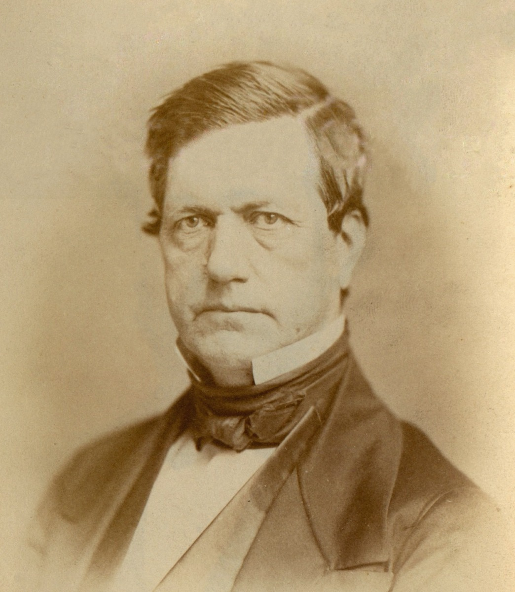 Subject is John Bullock Clark, Senior, United States soldier and politician, 1831-1885